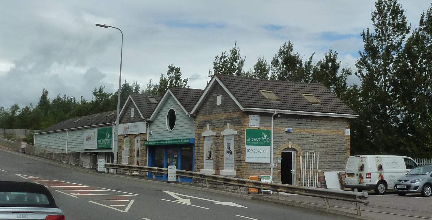 Surviving buildings of Penarth Dock railway station, now shops.